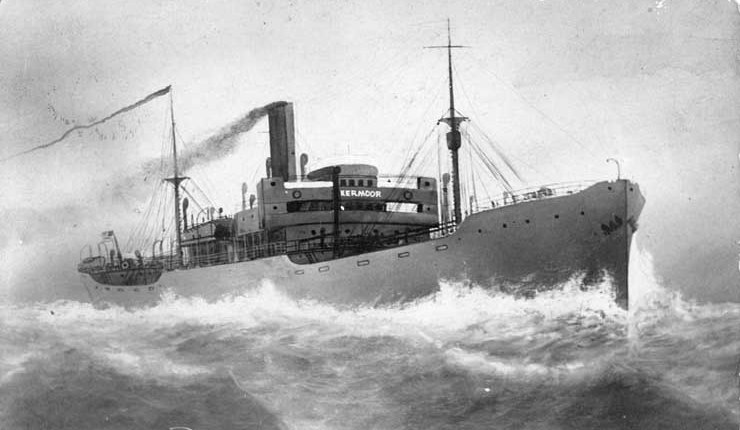 Painting by unknown artist of US Navy cargo ship USS Kermoor on a voyage from Europe to the United States.